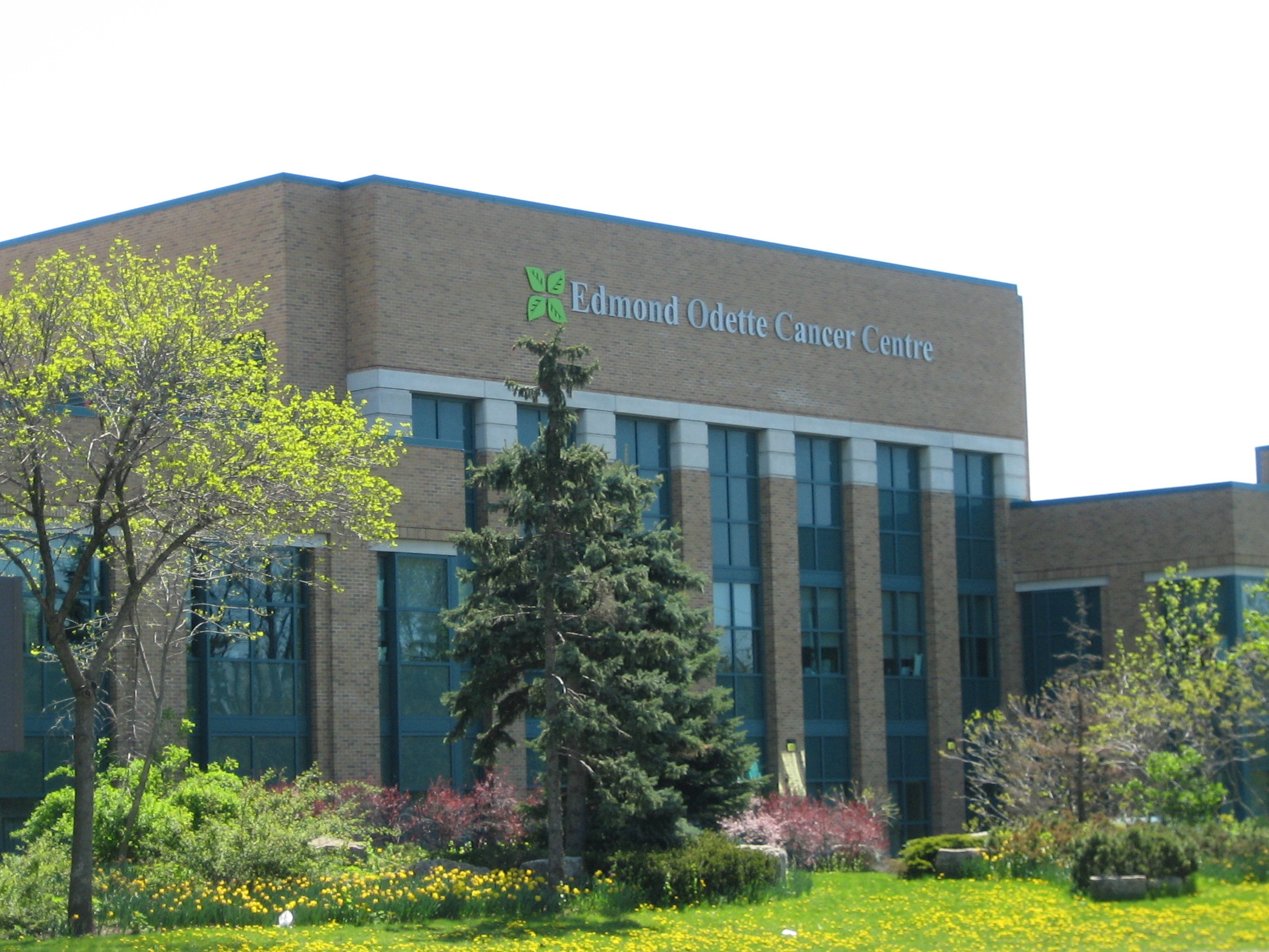 Edmond Odette Cancer Centre – associated with Sunnybrook Health Sciences Centre in Toronto, Ontario, Canada.